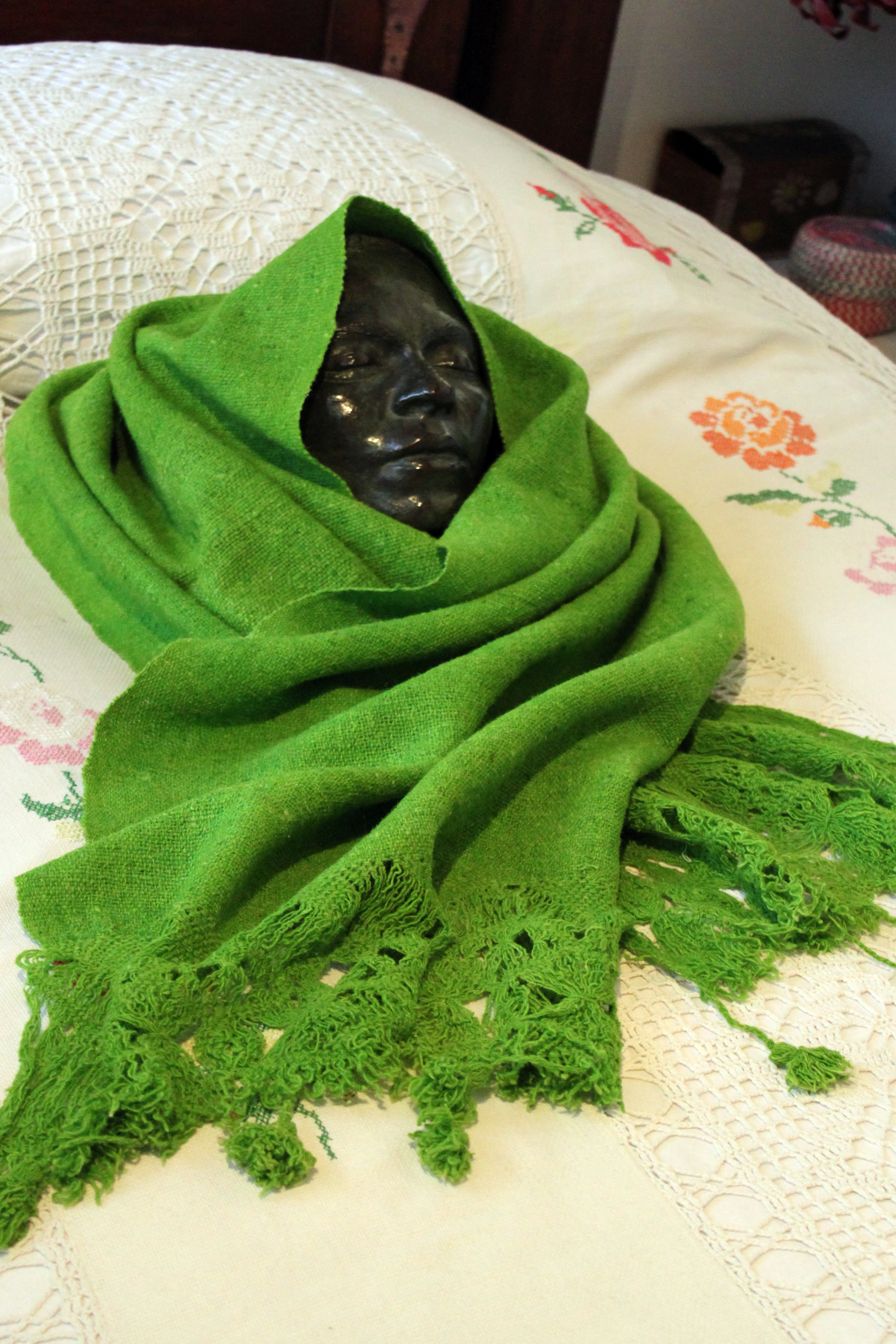 Death Mask Frida Kahlo, Frida Kahlo Museum, Mexico City